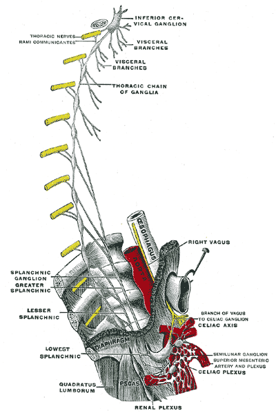 Plan of right sympathetic cord and splanchnic nerves. (Testut.)